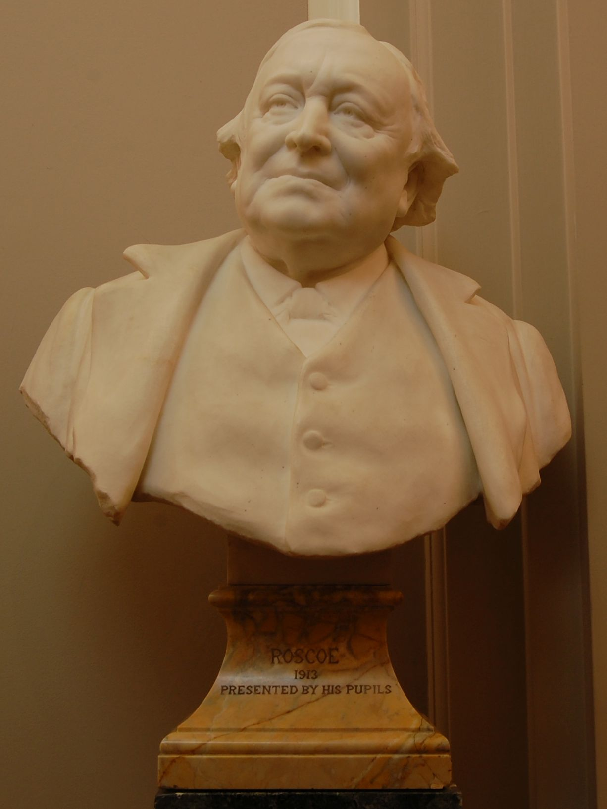 Artwork in the collection of the Royal Society of Chemistry, at it's Burlington House, London, headquarters.